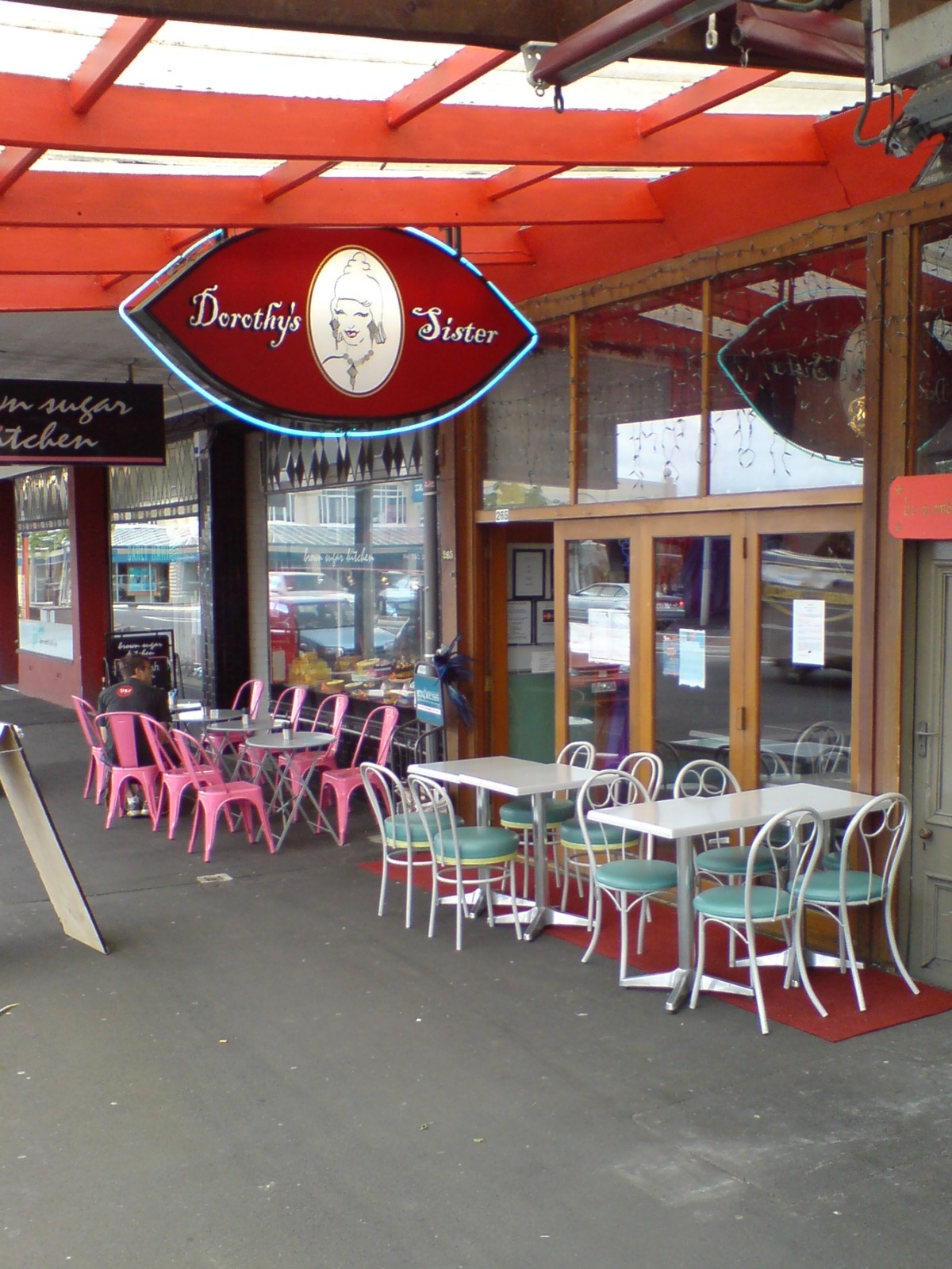 A cafe on Ponsonby Rd, Ponsonby, Auckland City, New Zealand. The cafe is called Dorothy's Sister - a play on "Friend of Dorothy", a slang term for a homosexual. Ponsonby was long known as the gay quarter of Auckland.